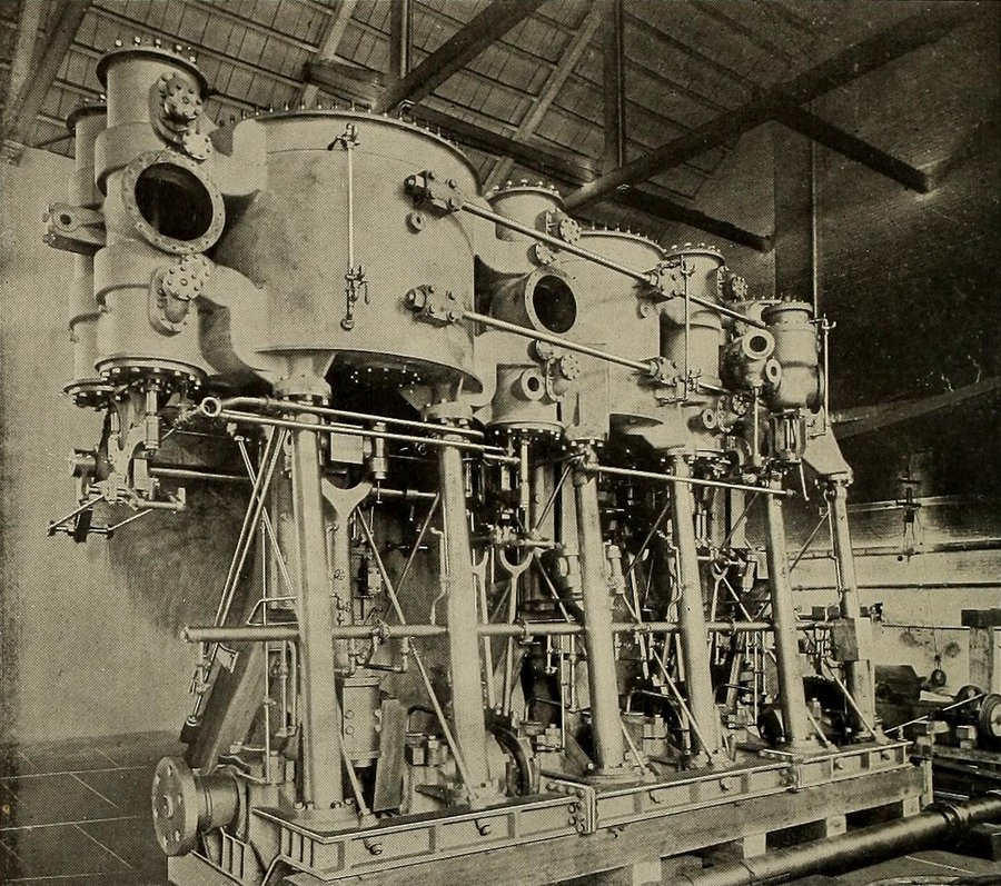 Triple expansion engines of battleship USS Massachusetts (BB-2).